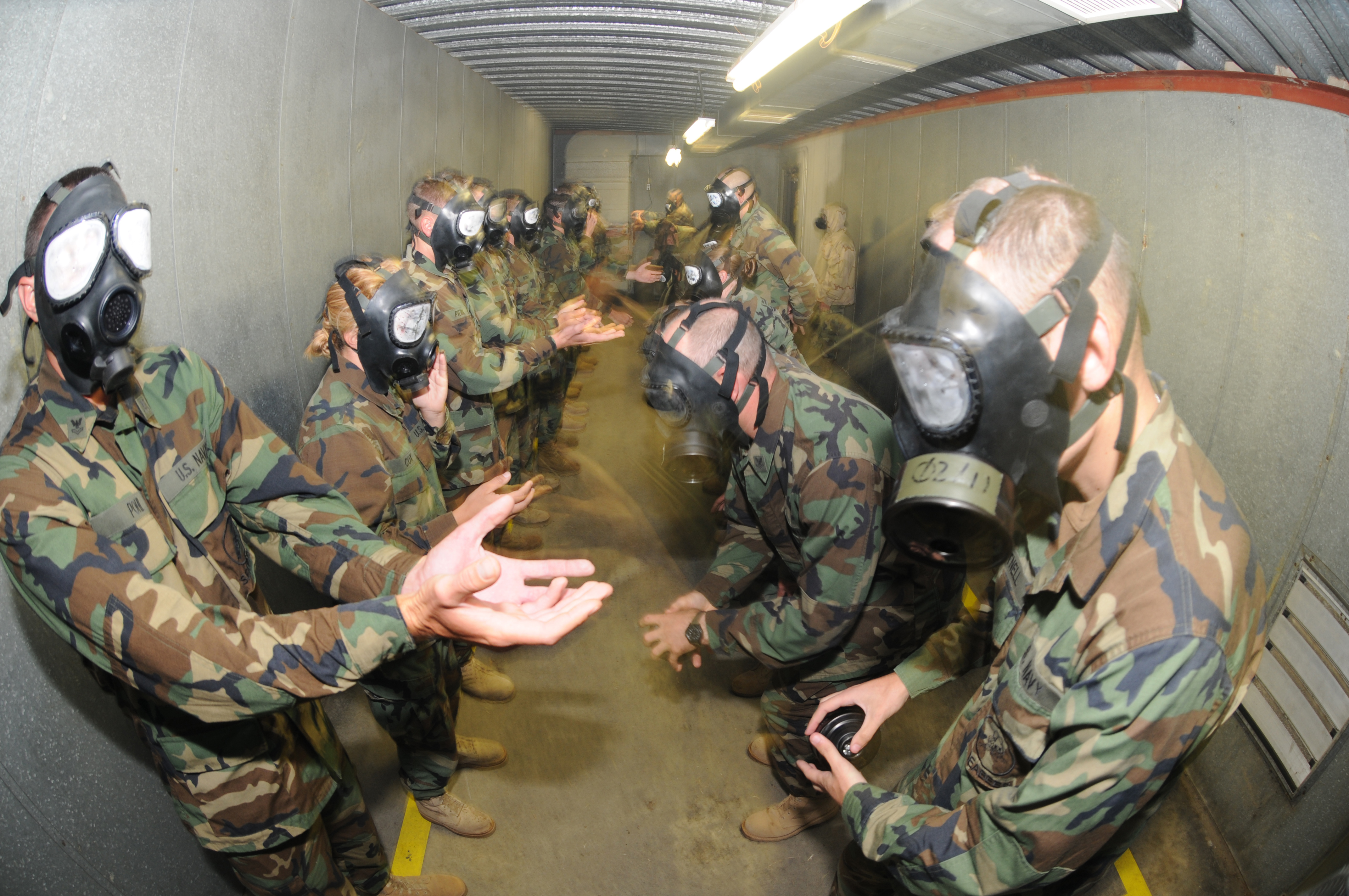 PORT HUENEME, Calif. (June 24, 2011) Seabees assigned to Naval Mobile Construction Battalion (NMCB) 17 practice removing and replacing filters on the M-40A gas mask while in the confidence chamber during Unit Level Training and Readiness Assessment called Operation Sea Hornet. Operation Sea Hornet provides training ranging from classroom to small unit leadership that will assist in preparing for mobilization to various deployment areas of responsibility. (U.S. Navy photo by Mass Communication Specialist 1st Class Kenneth Robinson/Released)